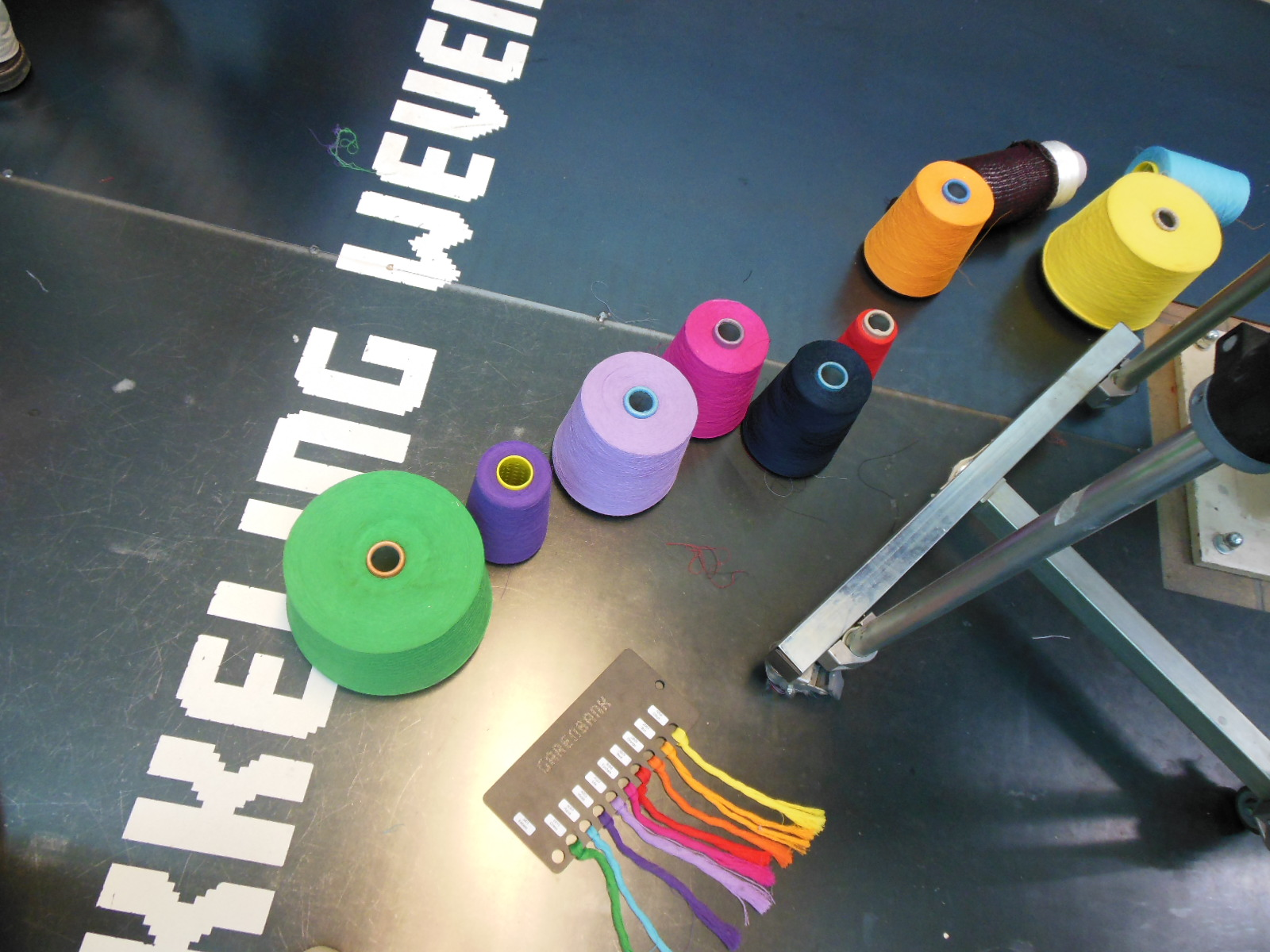 Very colorful yarns at the Textile Museum in Tilburg, The Netherlands